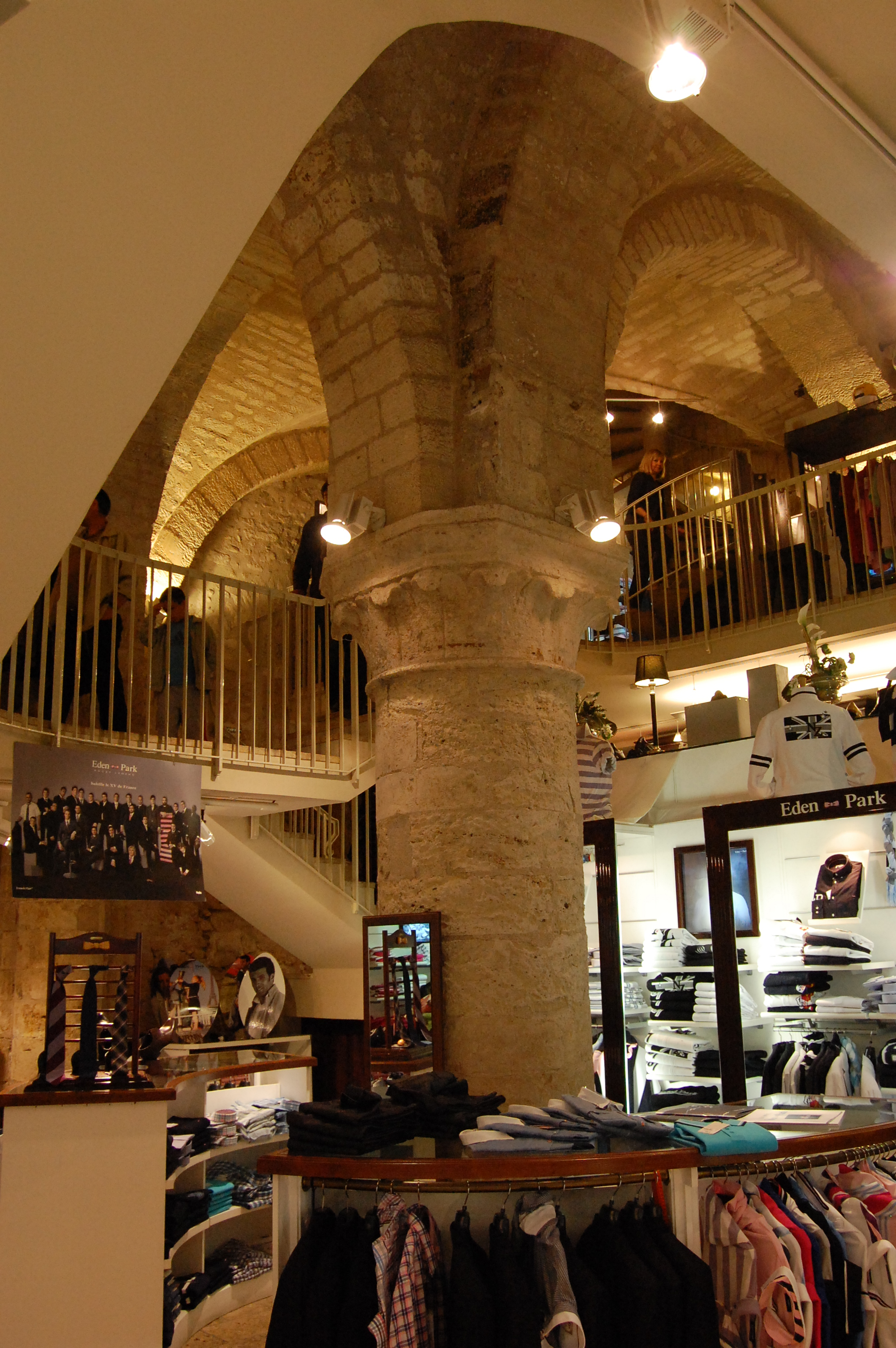 Inside of the Maison de la Voûte in Chartres - the great pillar. This picrure was taken by the courtesy of the store Covent Garden Chartres.